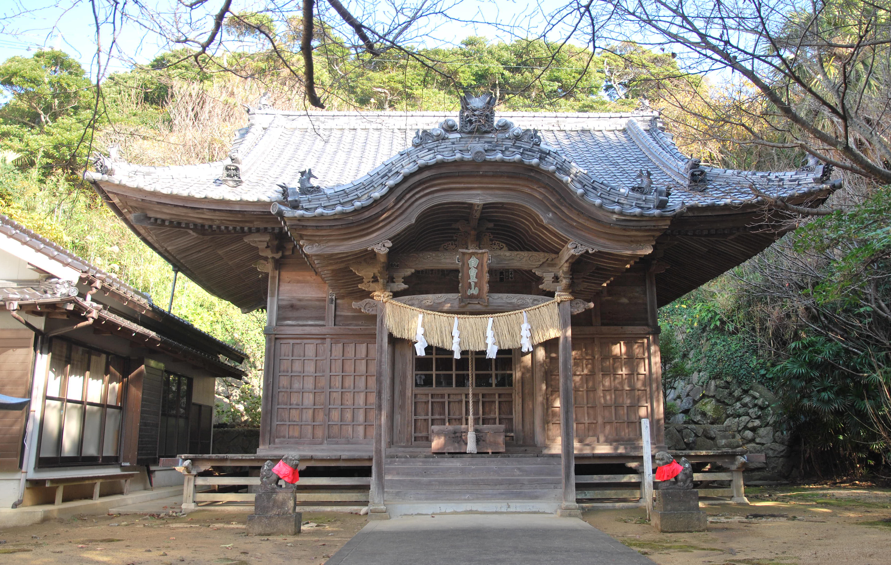 Front shrine, Hakusan-jinja